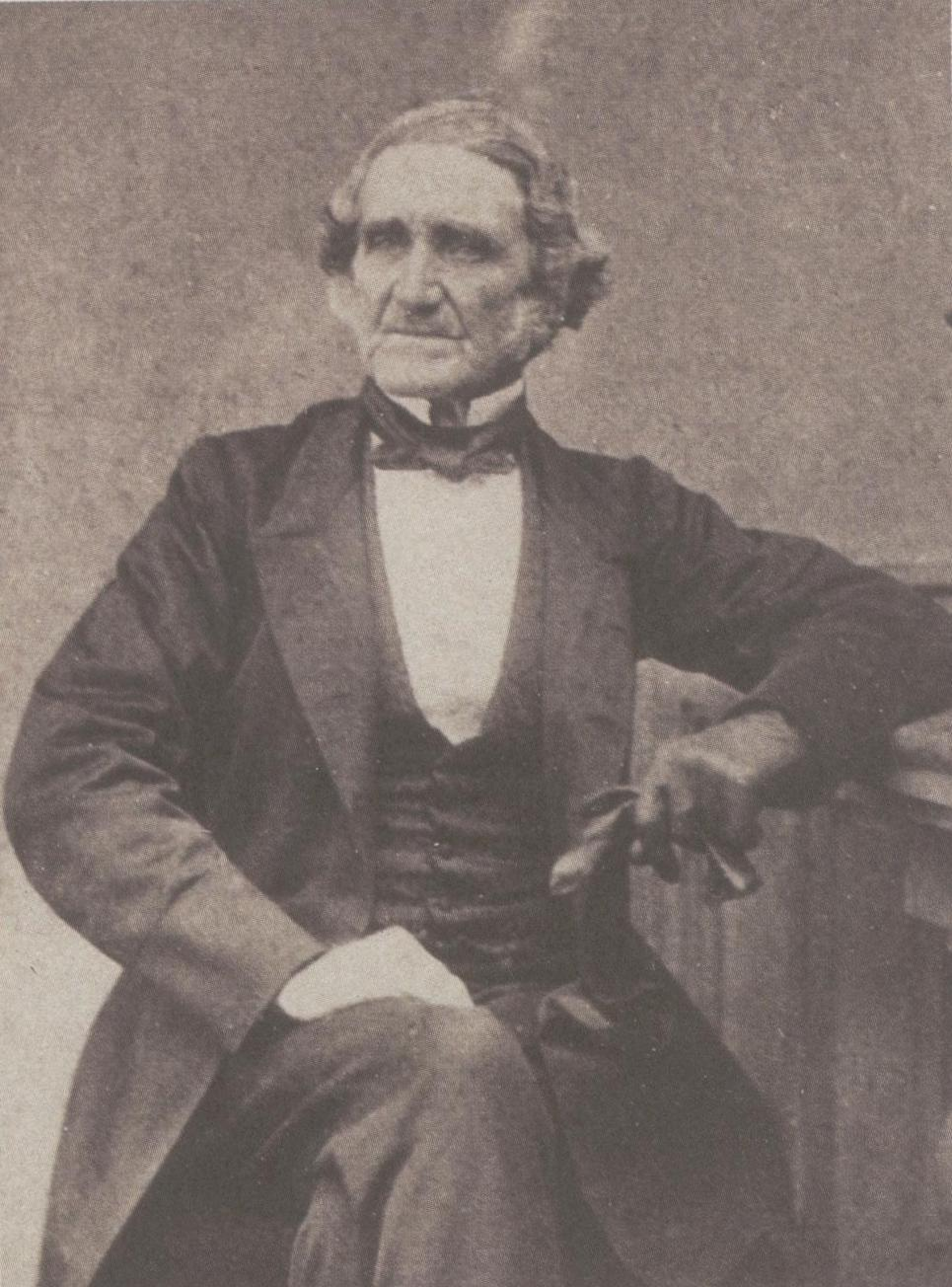 Hercules Crosse Jarvis. Prosperous merchant and twenty-times Mayor of Cape Town.